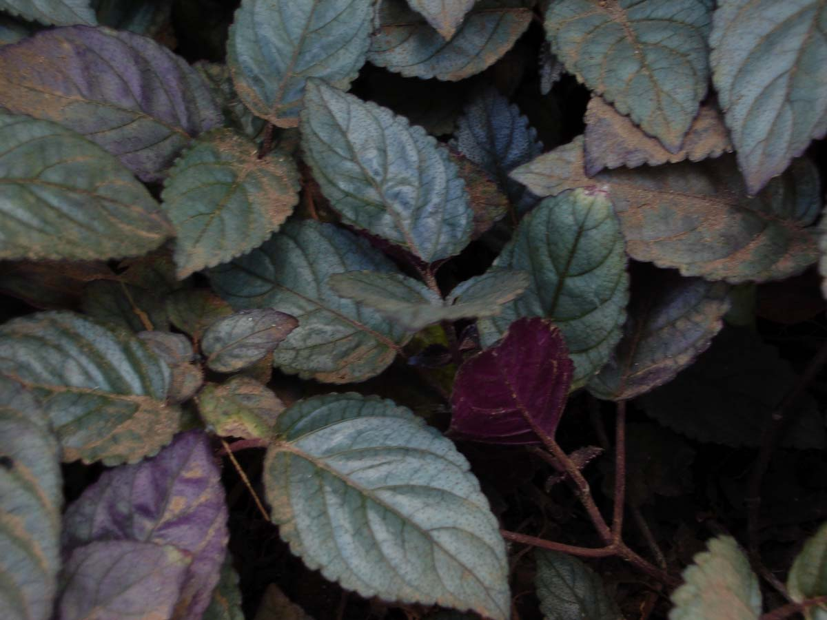 Hemigraphis alternata, in a Tongan garden